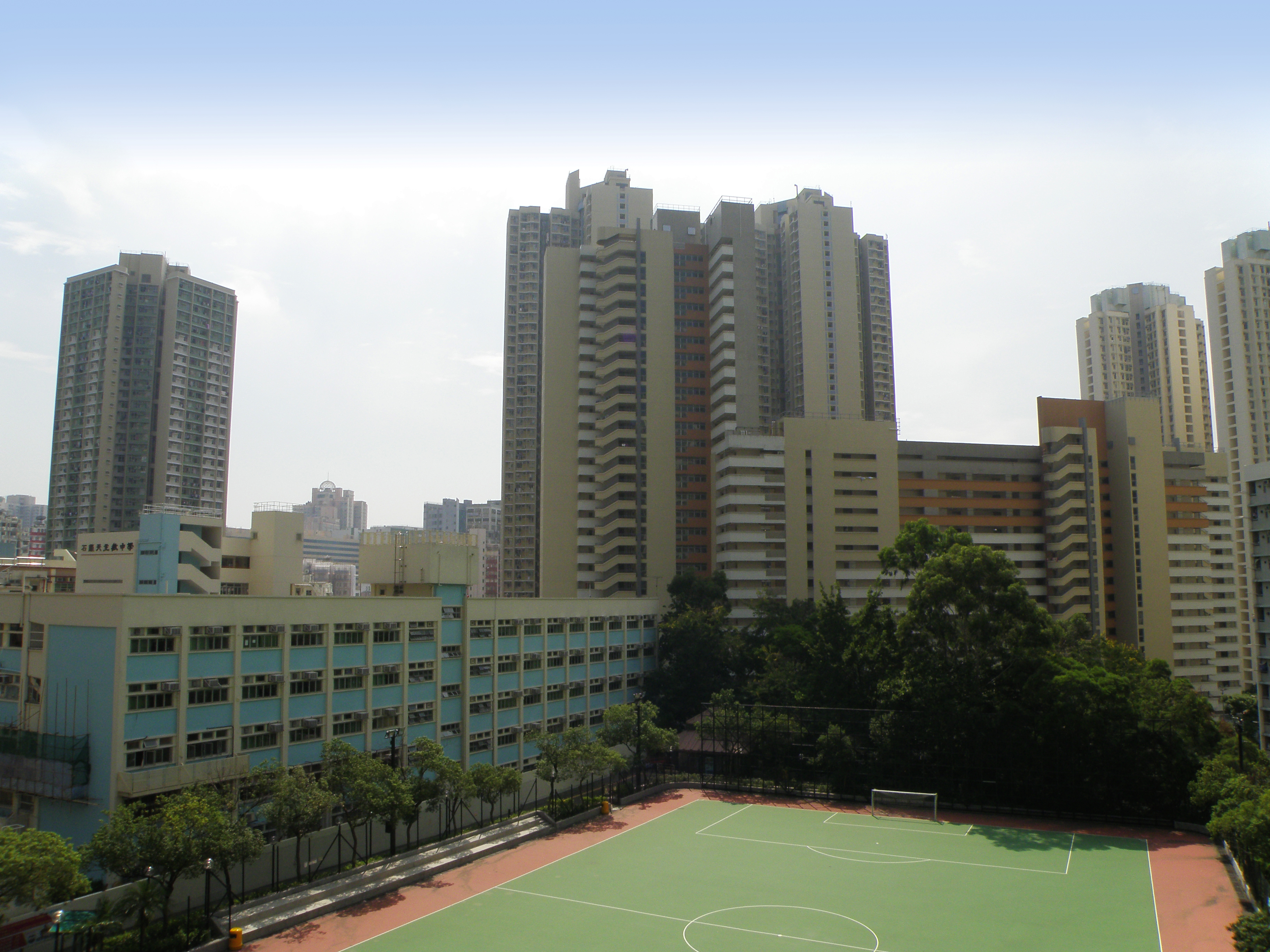 Shek Yam Estate in Kwai Chung, Hong Kong.